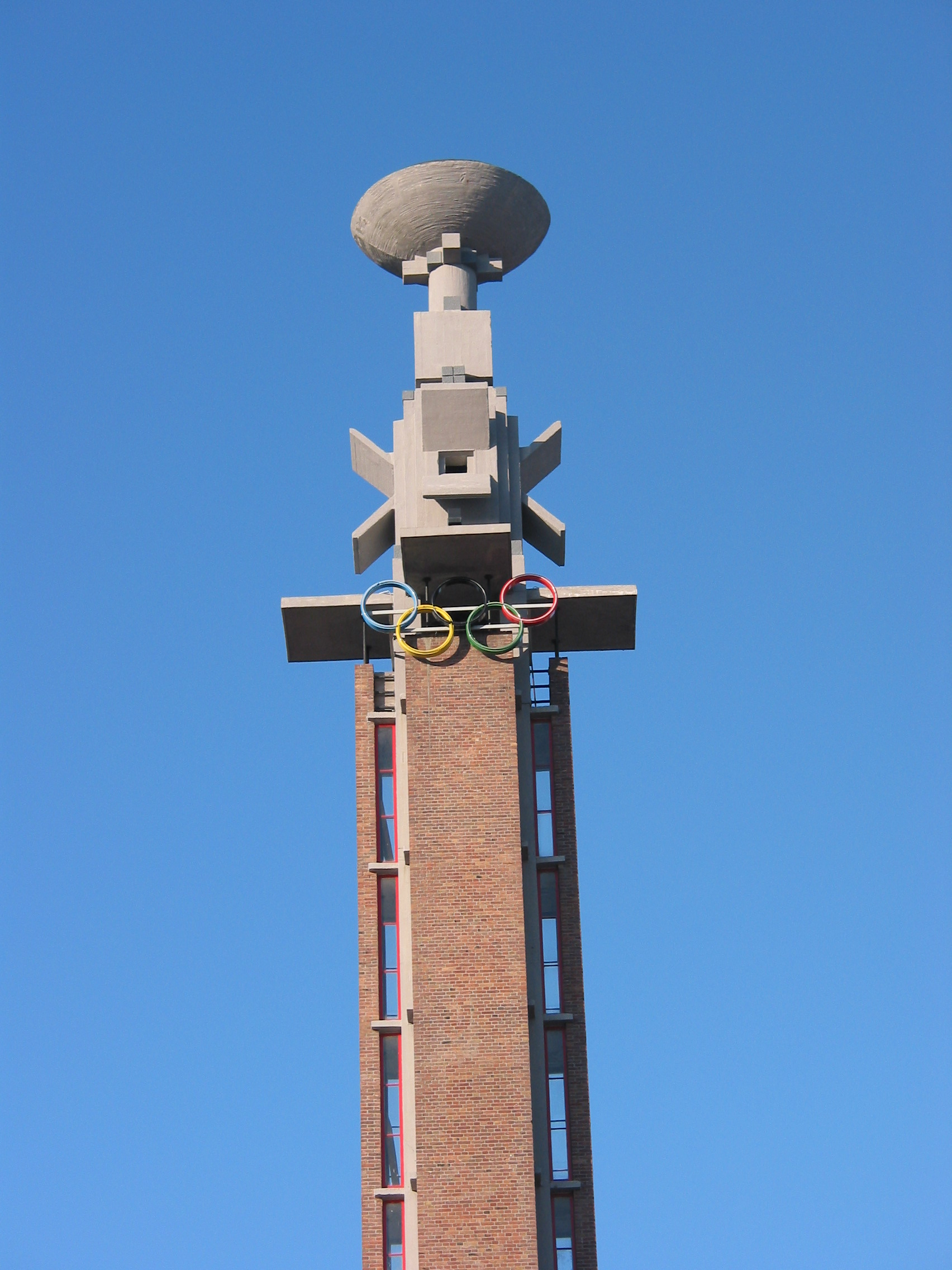 The Olympic cauldron in front of the Amsterdam Olympic Stadium.